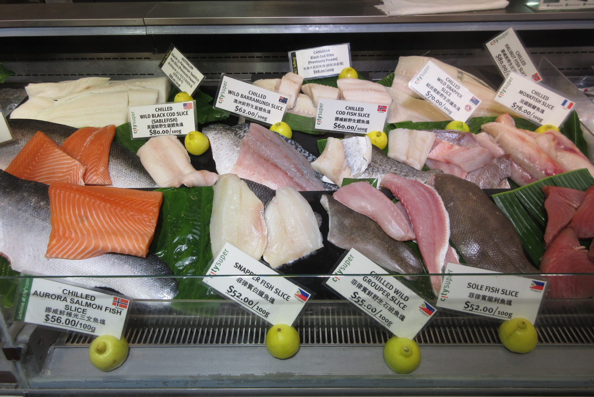 HK CWB 銅鑼灣 Causeway Bay 時代廣場 Times Square basement CitySuper Supermarket in November 2017